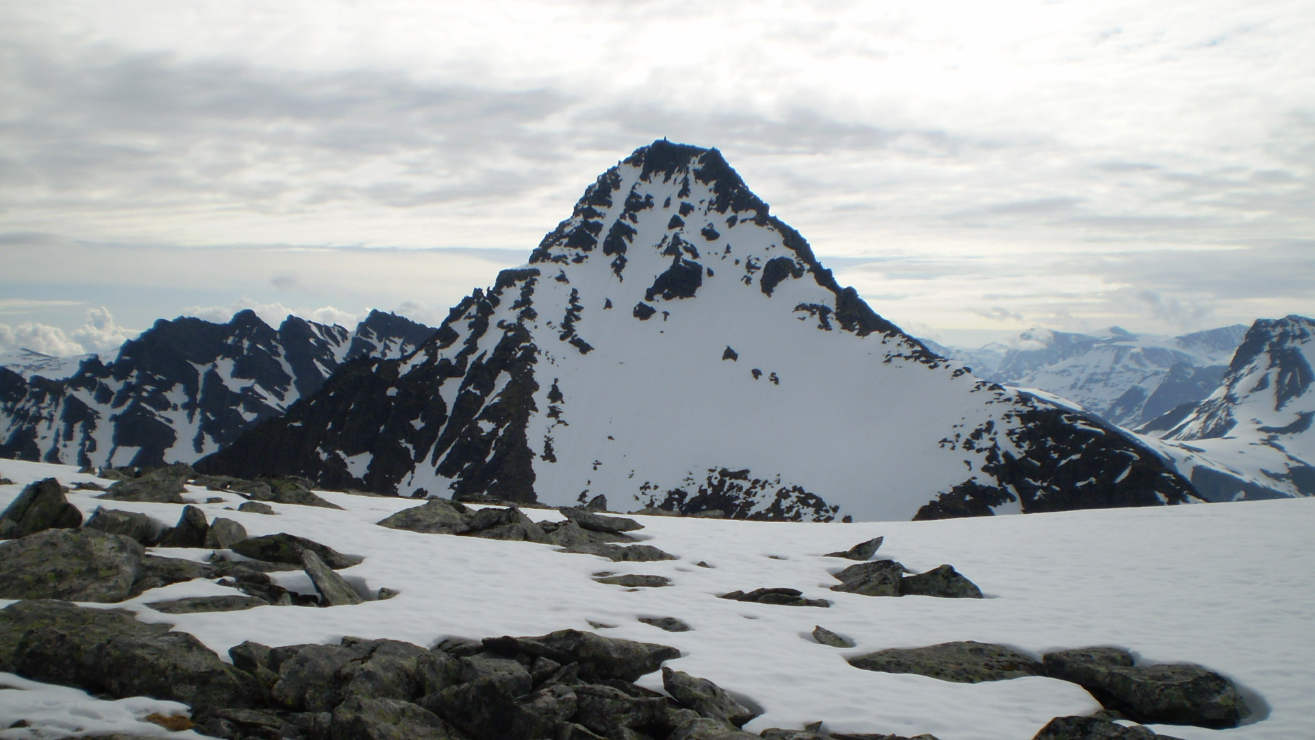 Mountain